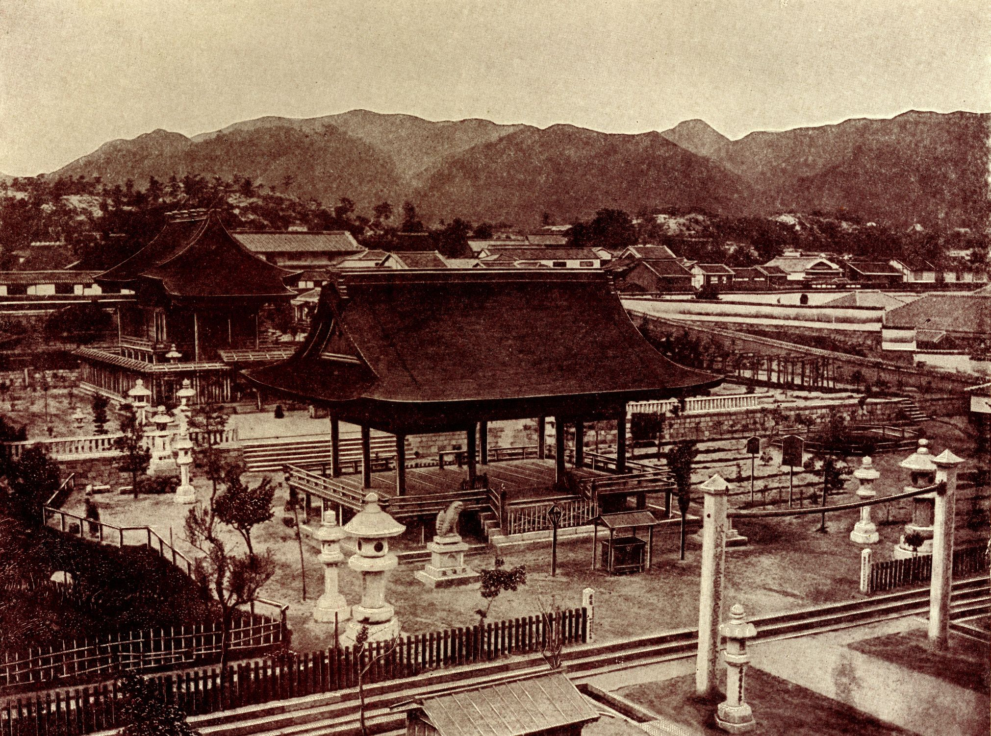 Temple of the Nanko in Kobe. Photo from the book "Japan And Japanese" (1902). Nanko means Kusunogi Masashige, a 14th-century samurai